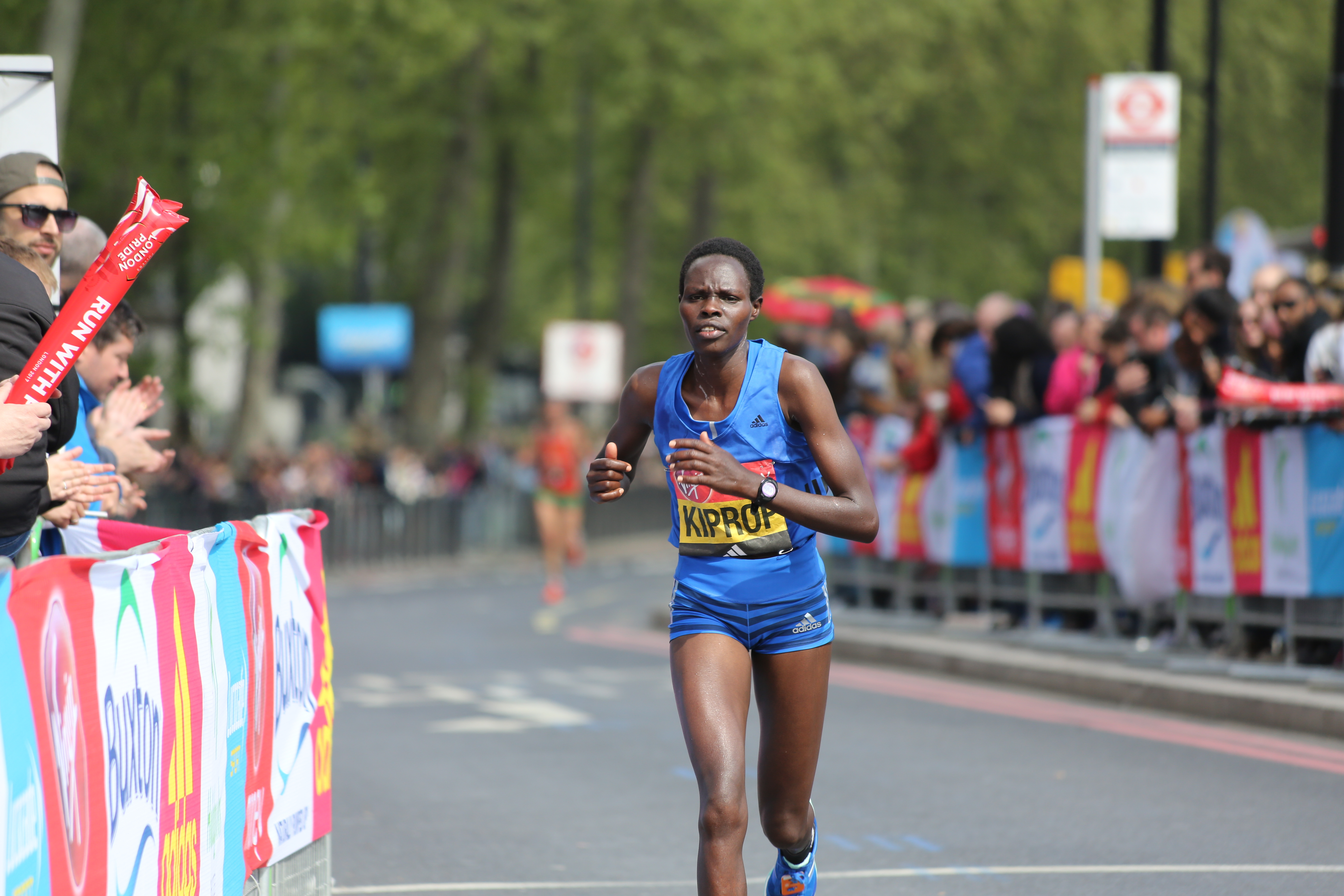 2017 London Marathon – Helah Kiprop